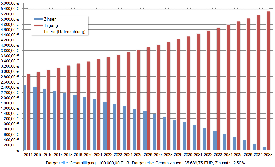 Annuity loan (total repayment: 100'000.00 EUR, interest rate 2.50%)